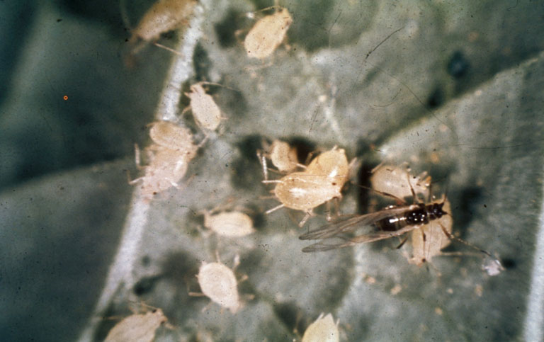 infestation of Aphis gossypii on cotton